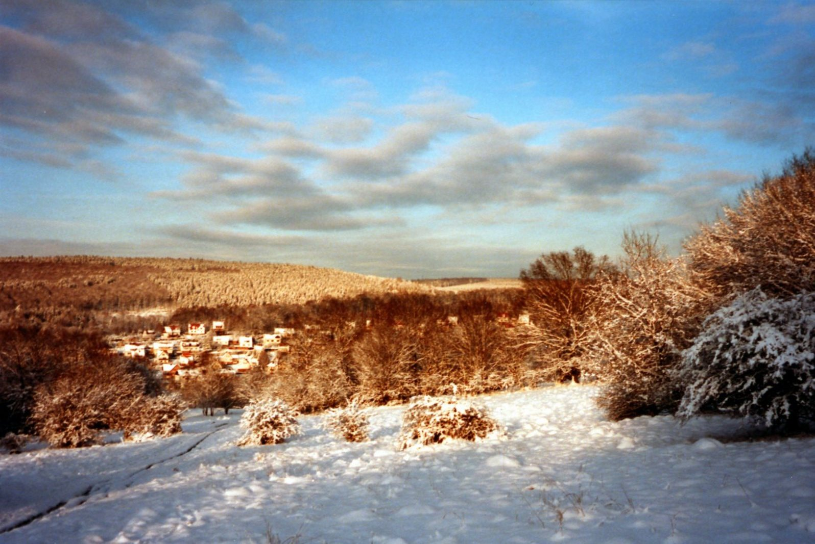 View of Wickenrode from Hirschberg in winter